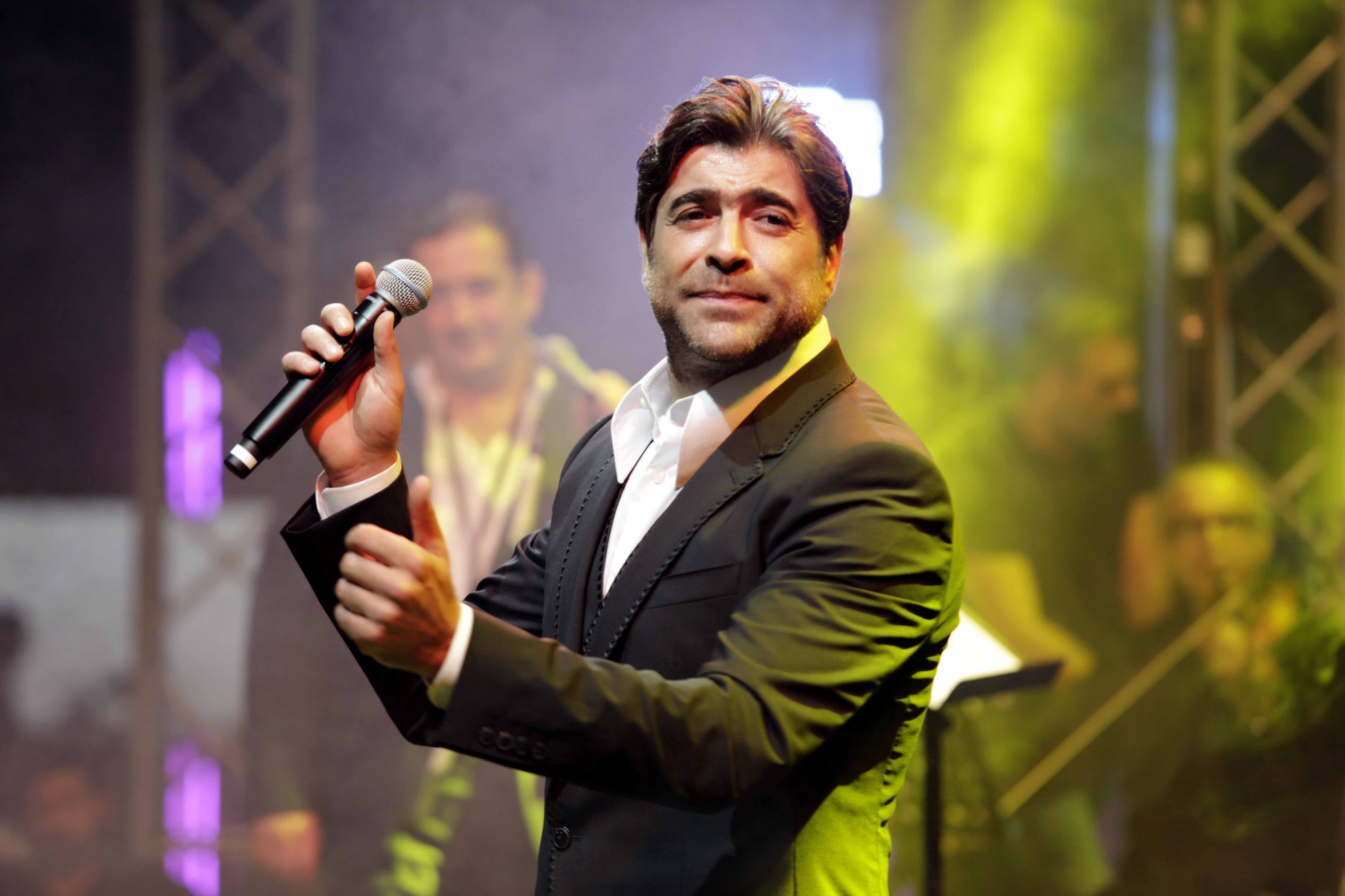 Wael Kfoury, Ehden Concert